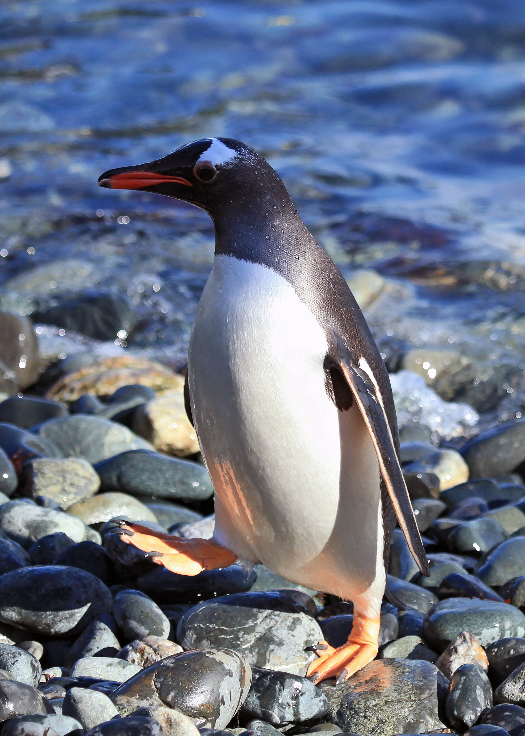 Gentoo Penguin at Cooper Bay, South Georgia, British Overseas Territories, UK.